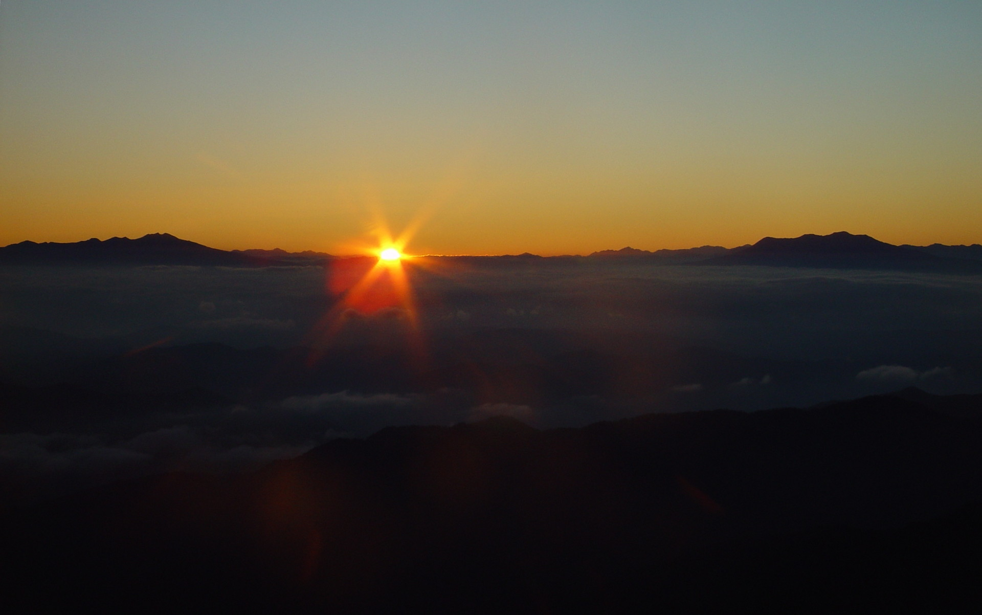 Mount Norikura and Ontake from Mount Haku